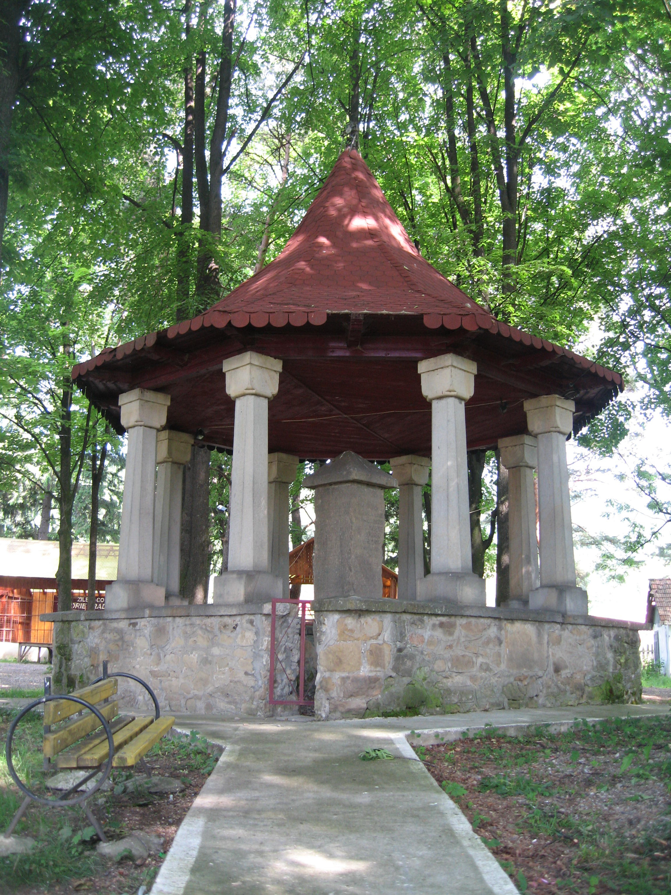 Stâlpul lui Vodă